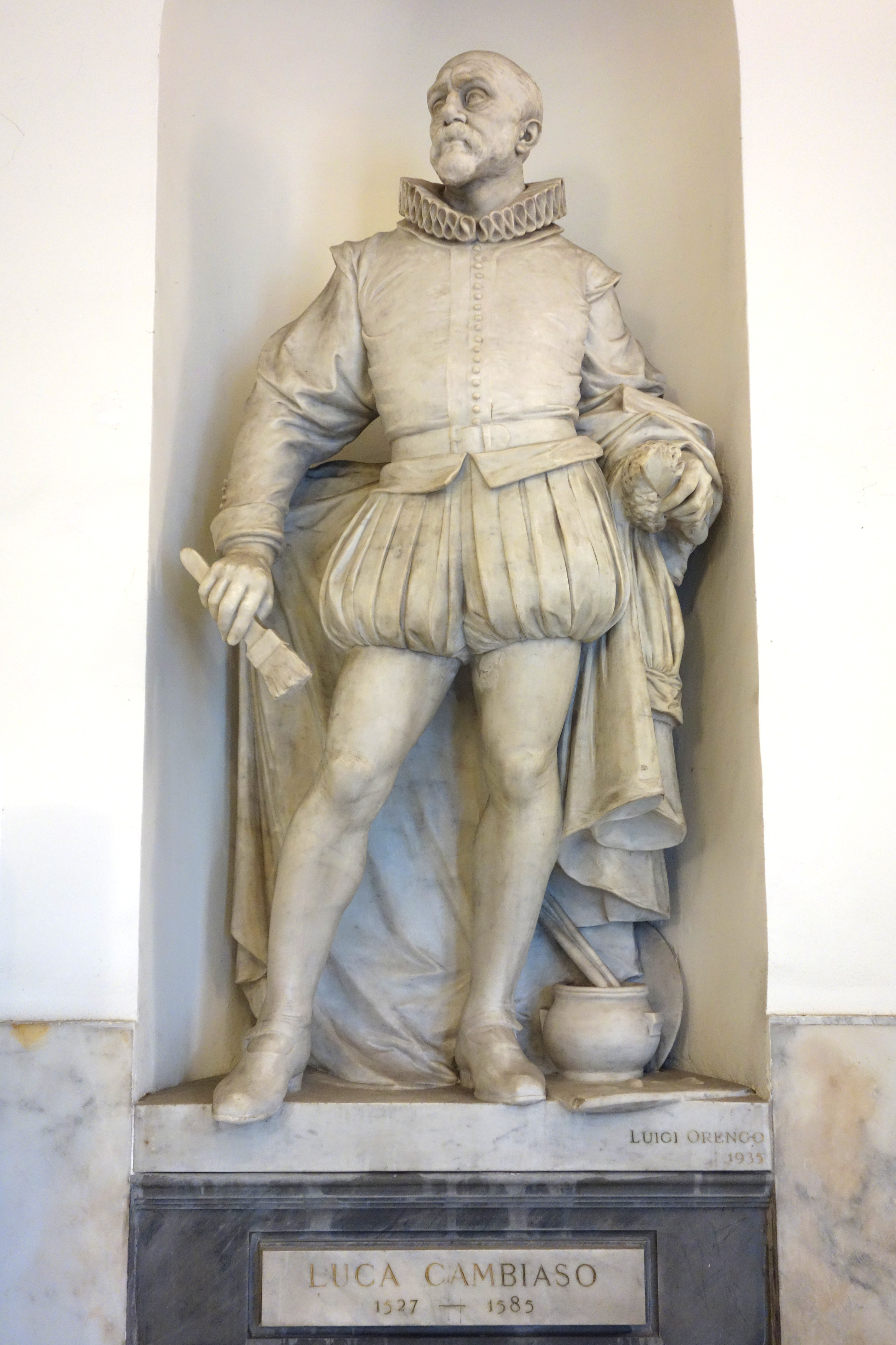 Exhibit in the Accademia Ligustica di Belle Arti, Genoa, Italy. This artwork is old enough so that it is in the public domain.